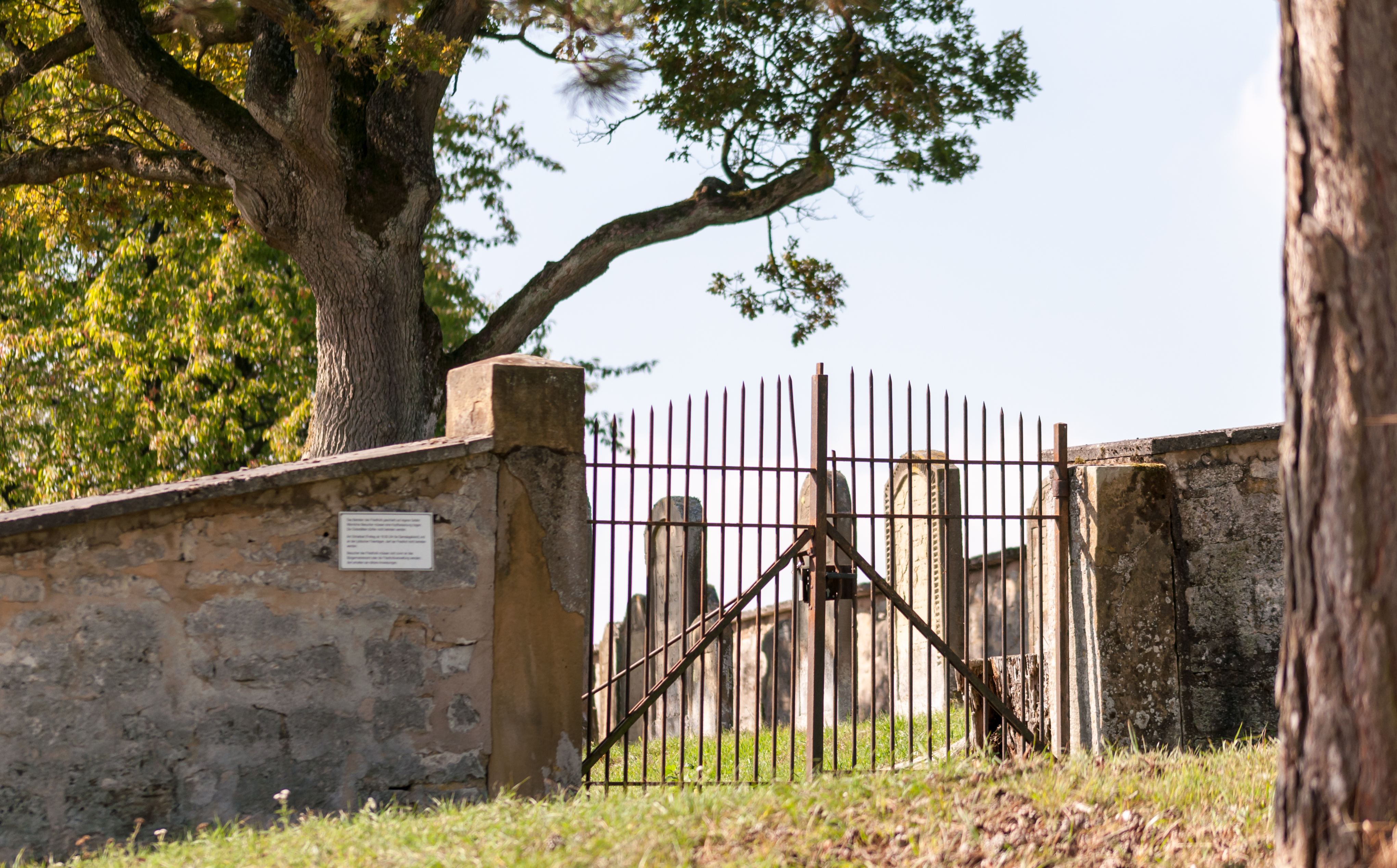 Jewish cemetery near Krautheim (Jagst), Germany